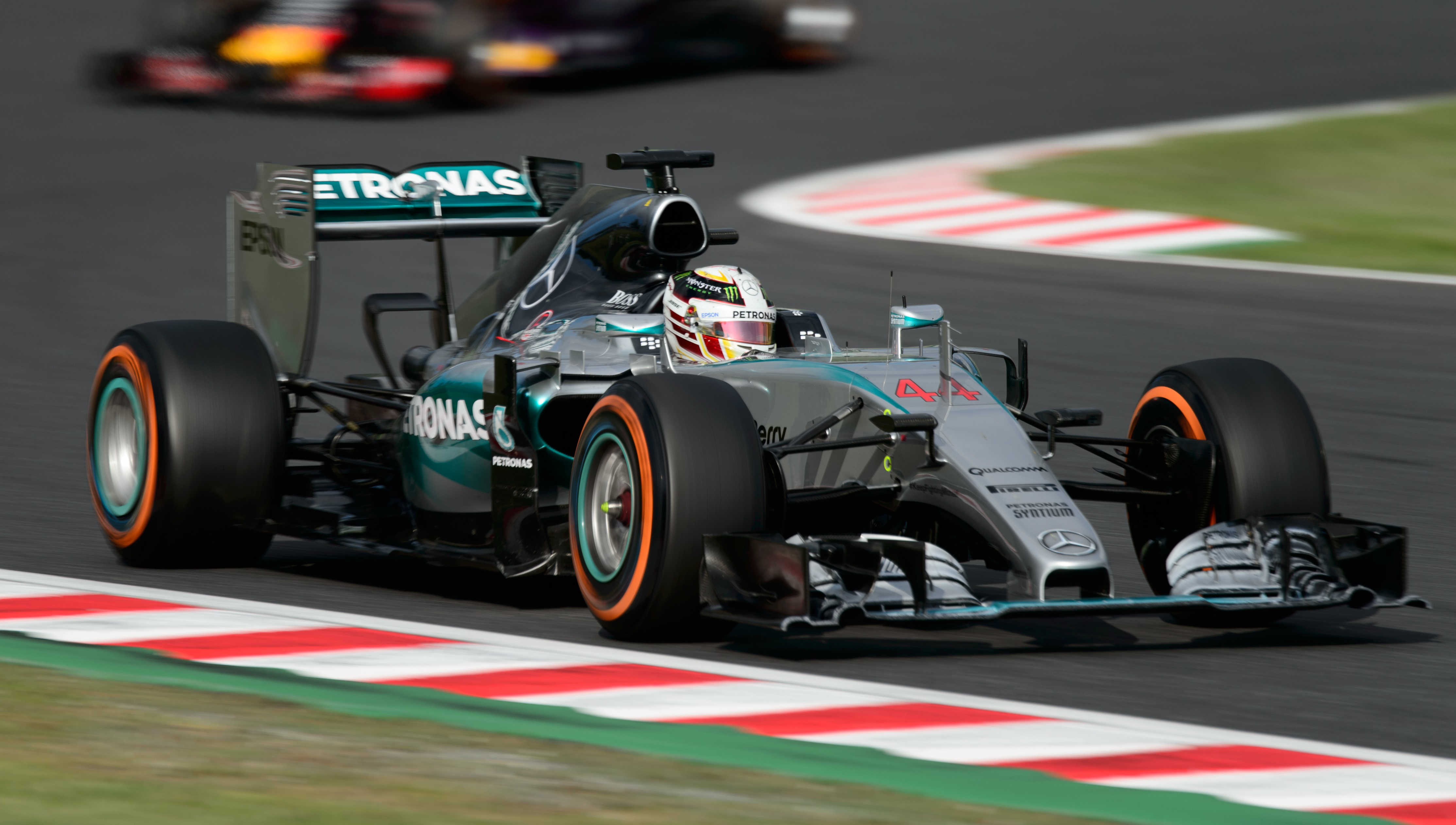 Lewis Hamilton at the 2015 Japanese Grand Prix